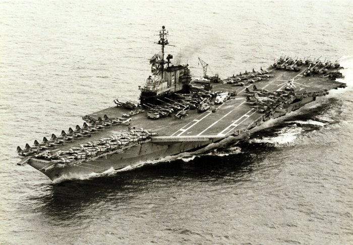 The U.S. Navy aircraft carrier USS Midway (CVA-41) transporting over 100 aircraft of the former Vietnamese Air Force (VNAF) from Thailand to Guam following the Fall of Saigon.